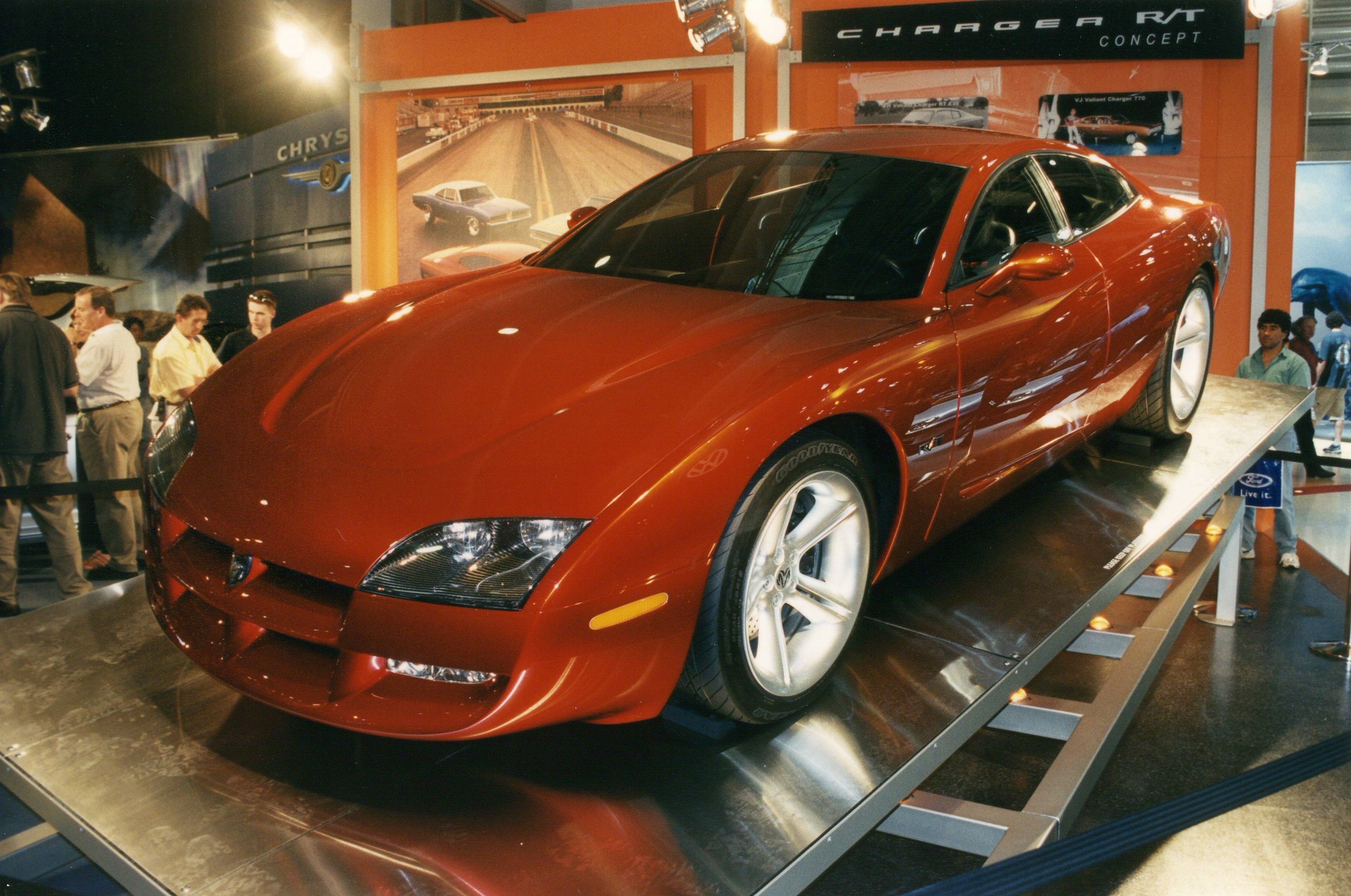 This image is a scan of a 35mm print taken at the 2000 Sydney Motor Show